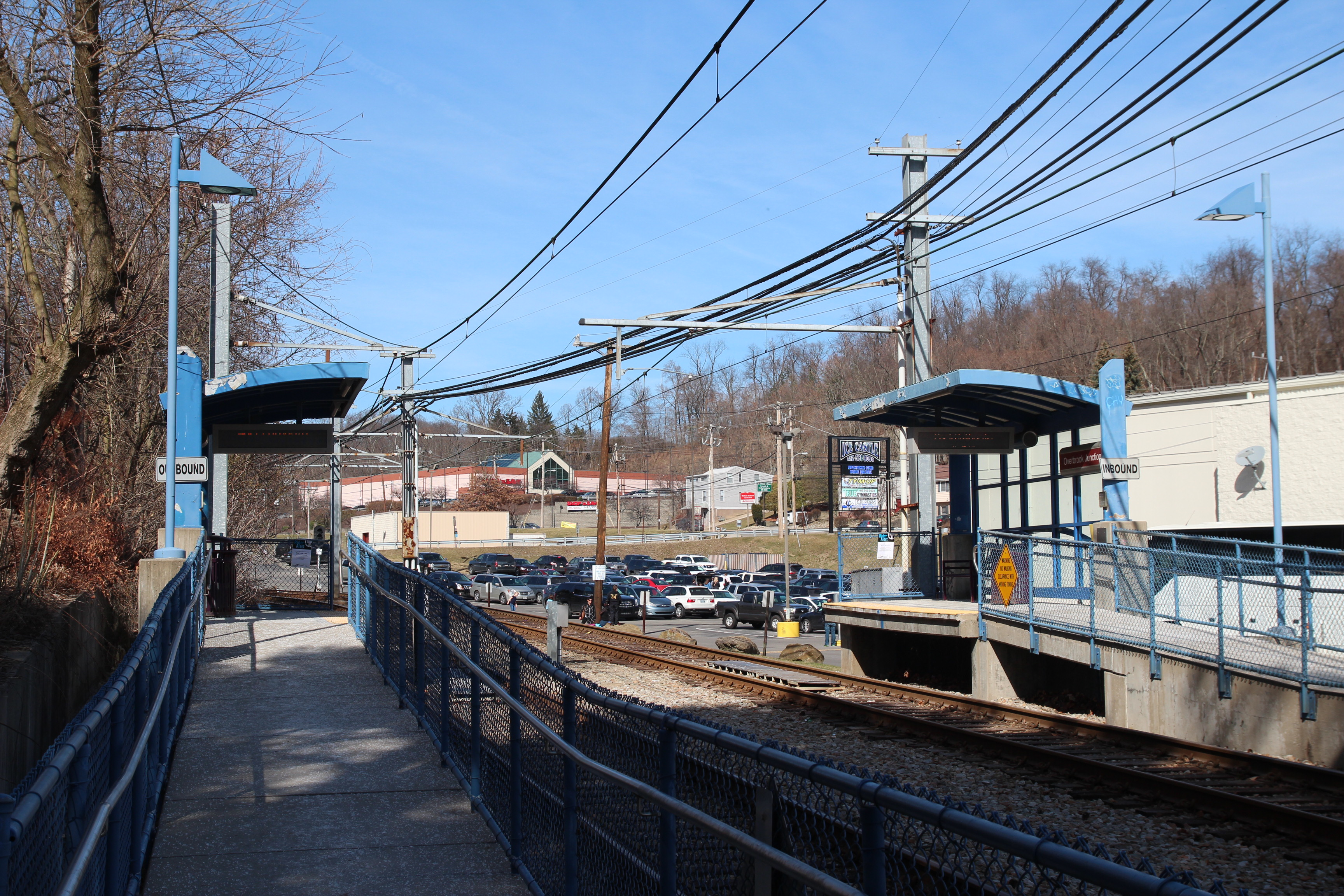 Looking north at the Overbrook Junction station. Willow station is behind me to my right.